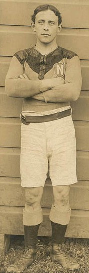 Viv Farsnworth Newtown RugbyLeague @1910